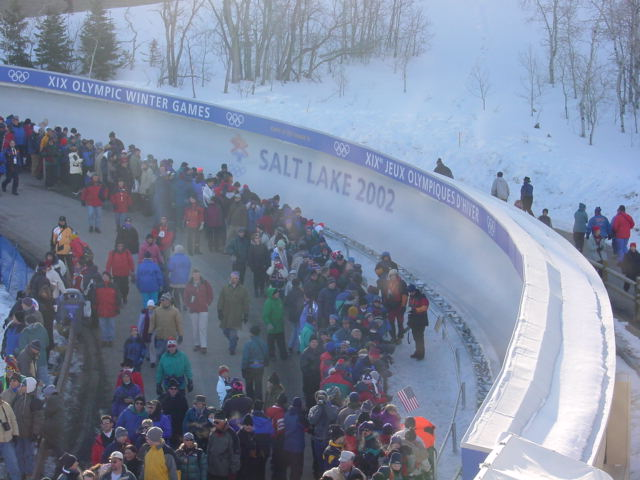 A curve of the Utah Olympic Park's luge, bobsled, and skeleton track. Taken during the 2002 Winter Olympics in Salt Lake City.